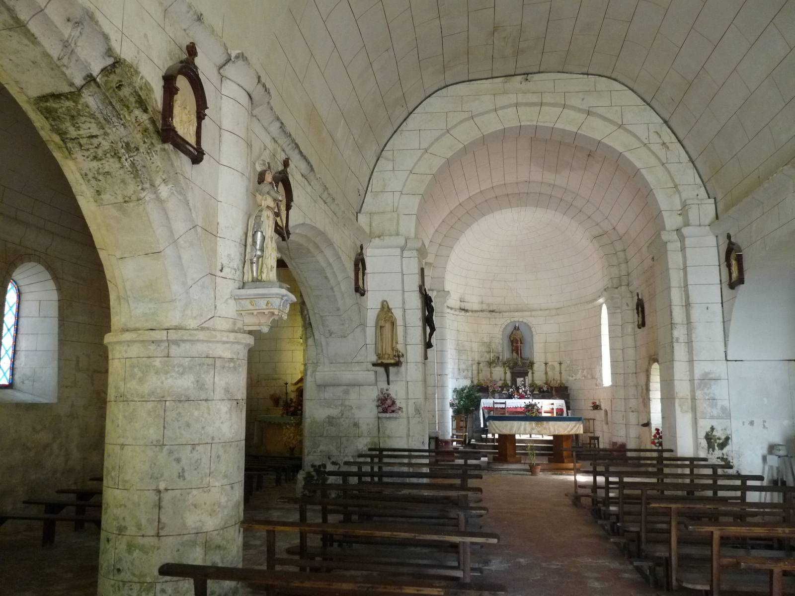 church of Combiers, Charente, SW France